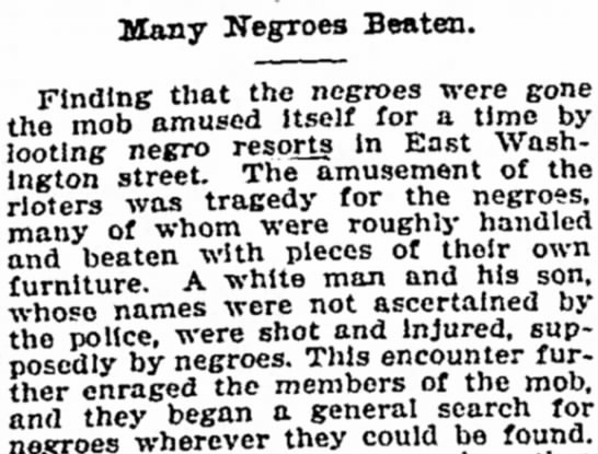 The Courier-Journal. 15 Aug 1908